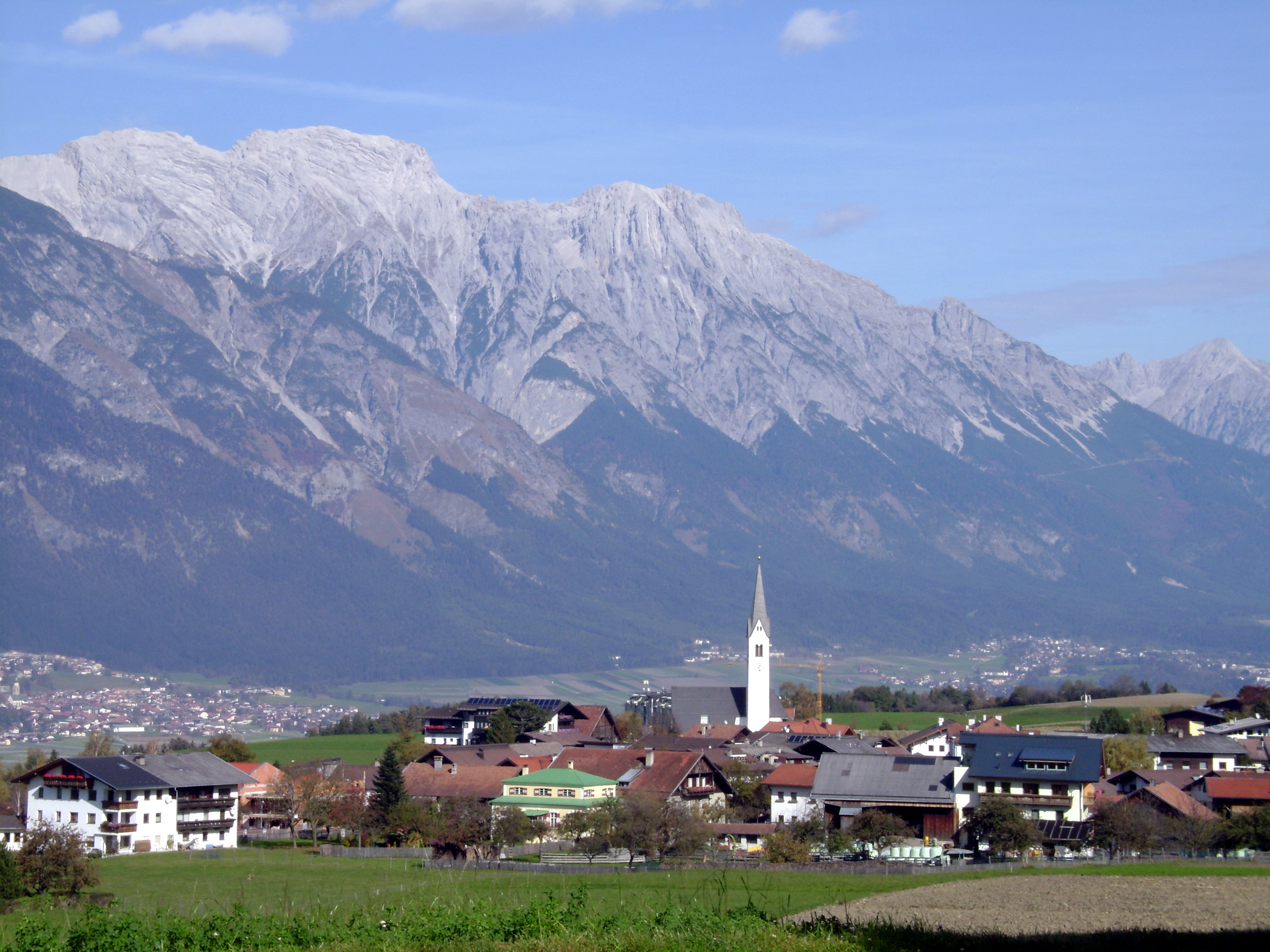 Aldrans from south west, Bettelwurf